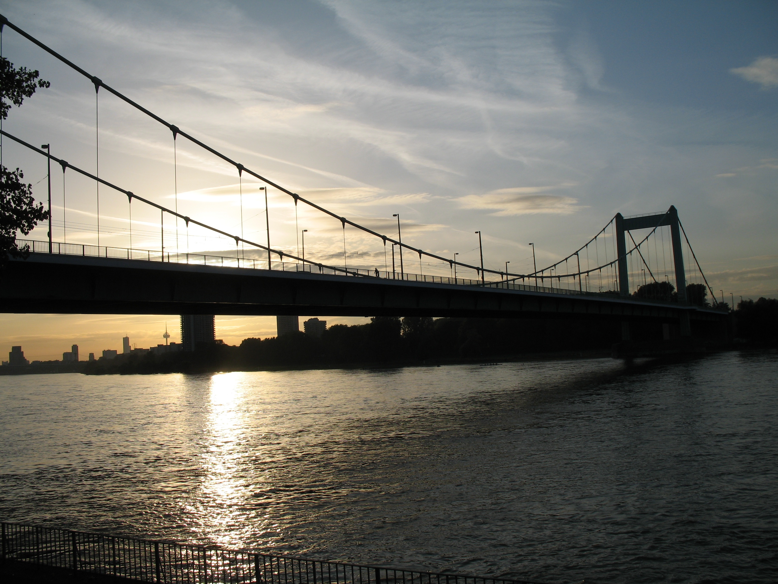 Mülheimer Bridge in Cologne at sunset